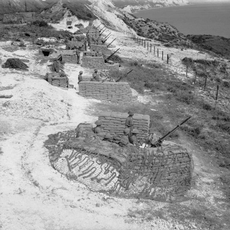 The British Army in the United Kingdom 1939-45 Light anti-aircraft guns in position on clifftops on the South Coast, 6 August 1944.